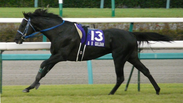 BB-Guldan20111002